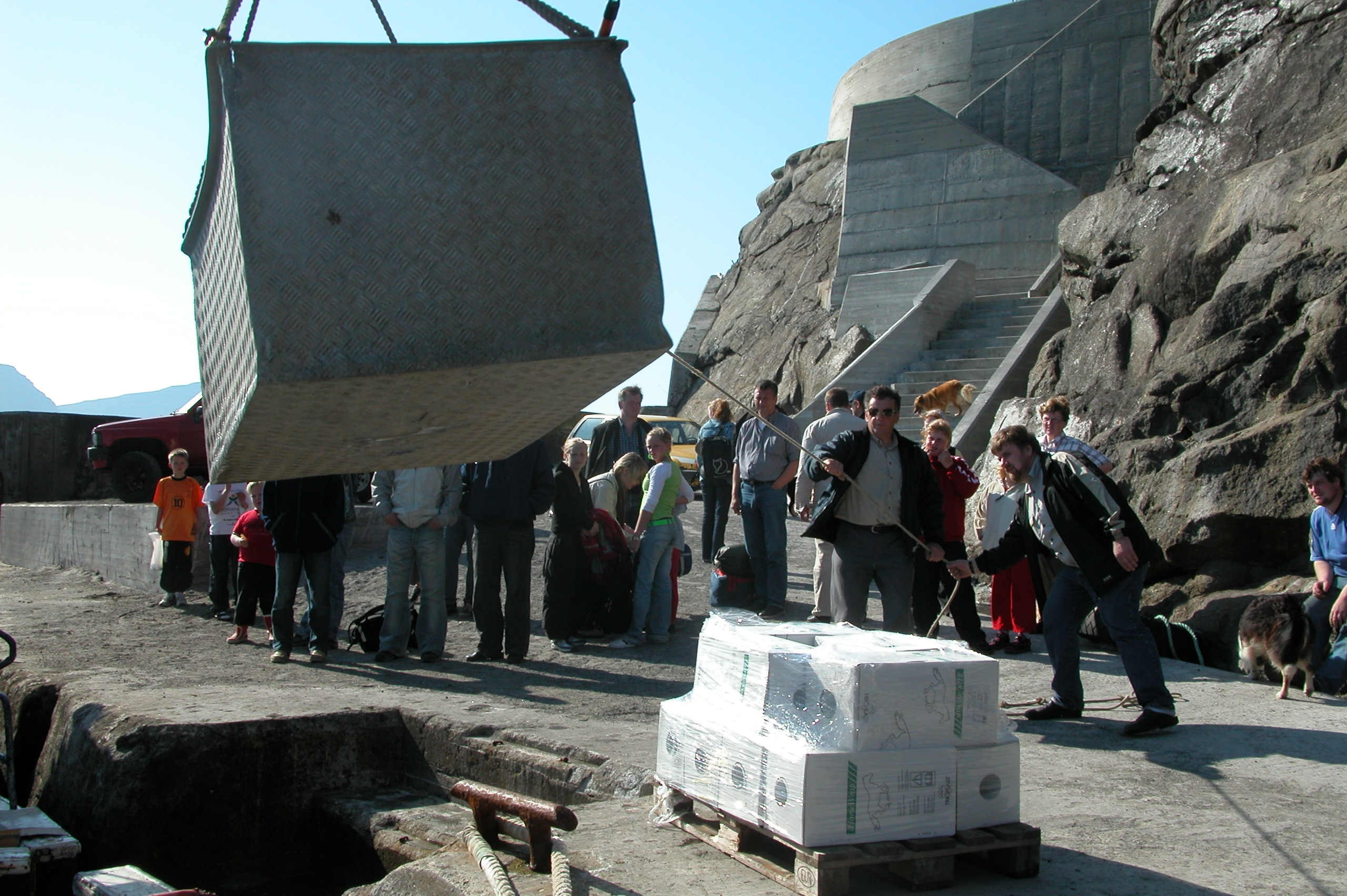 Harbour scene in Kirkja on Fugloy, Faroe Islands.